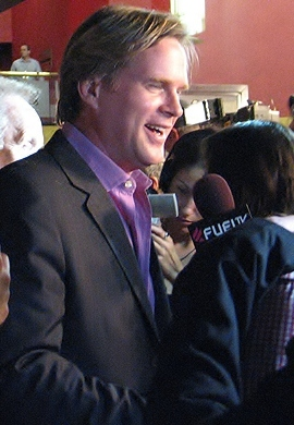 Cary Elwes (Dr. Gordon) attending the Saw 3D premiere at the Mann's Chinese 6 theater in Hollywood, CA .